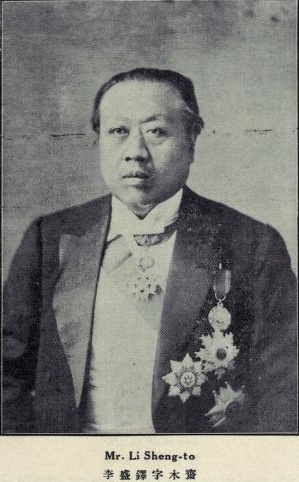 Li Shengduo, Muzhai (1859 - 1937)